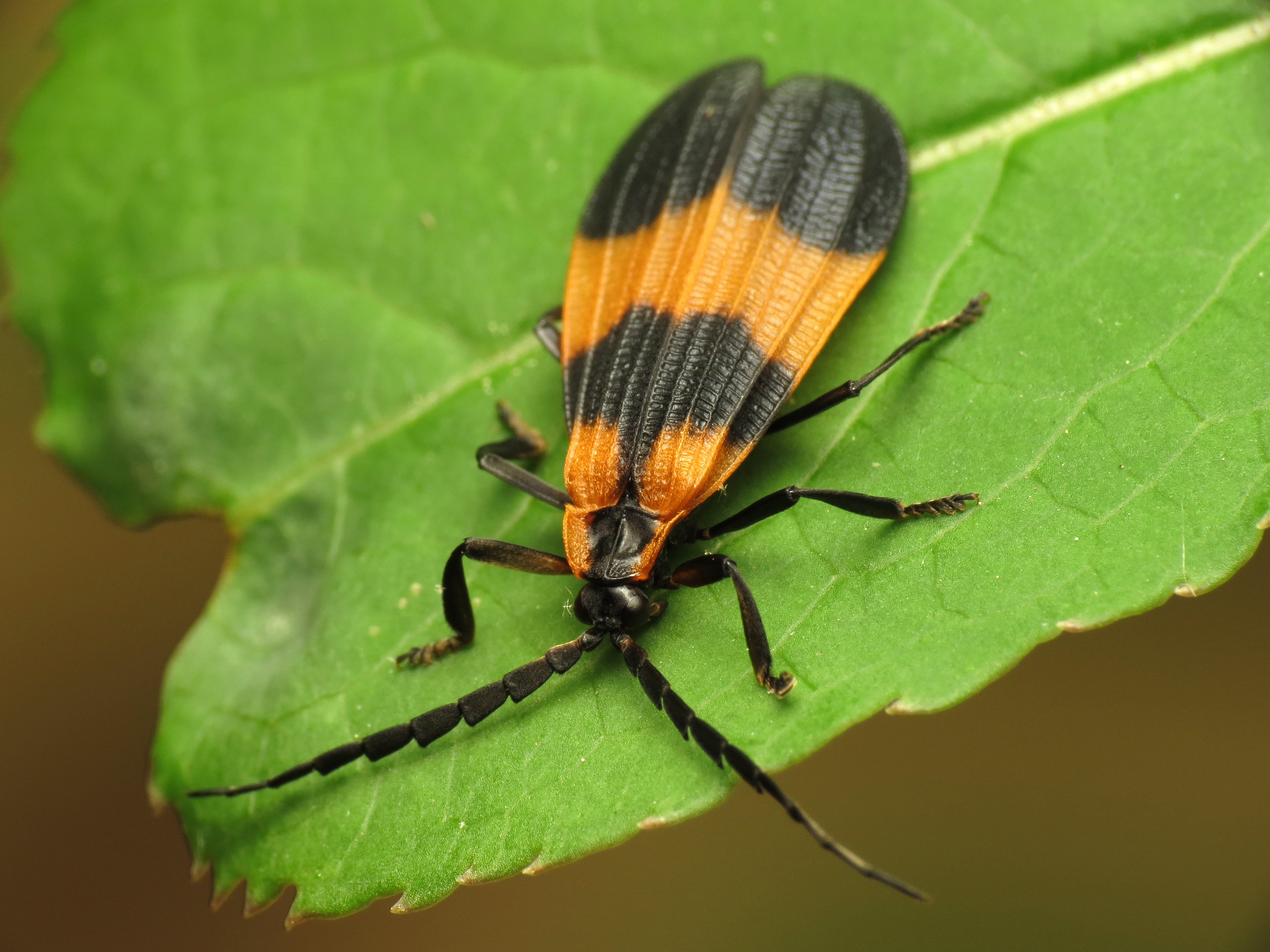 Calopteron reticulatum. Smithsonian Environmental Research Center, Edgewater, Maryland, USA.